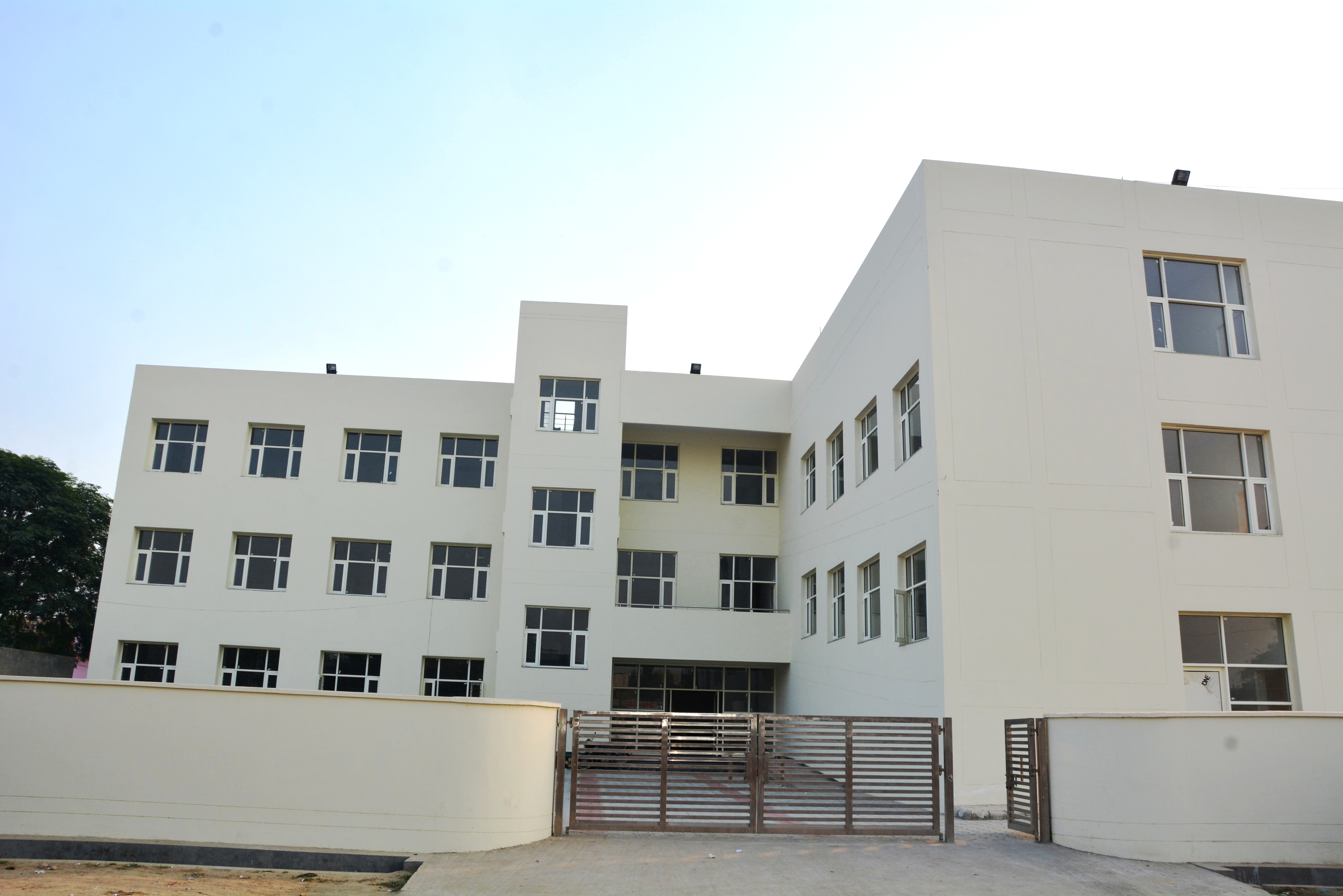 RURAL INSTITUTE OF VOCATIONAL TRAINING, BADAL